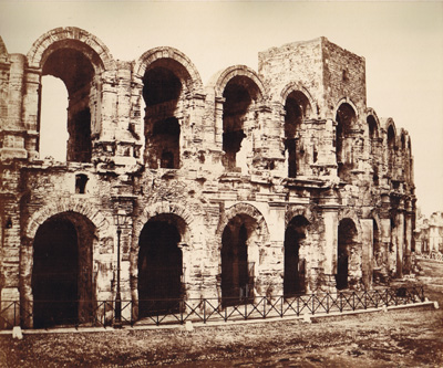 Gelatine-Saltprint, 18 x 22.5 cm